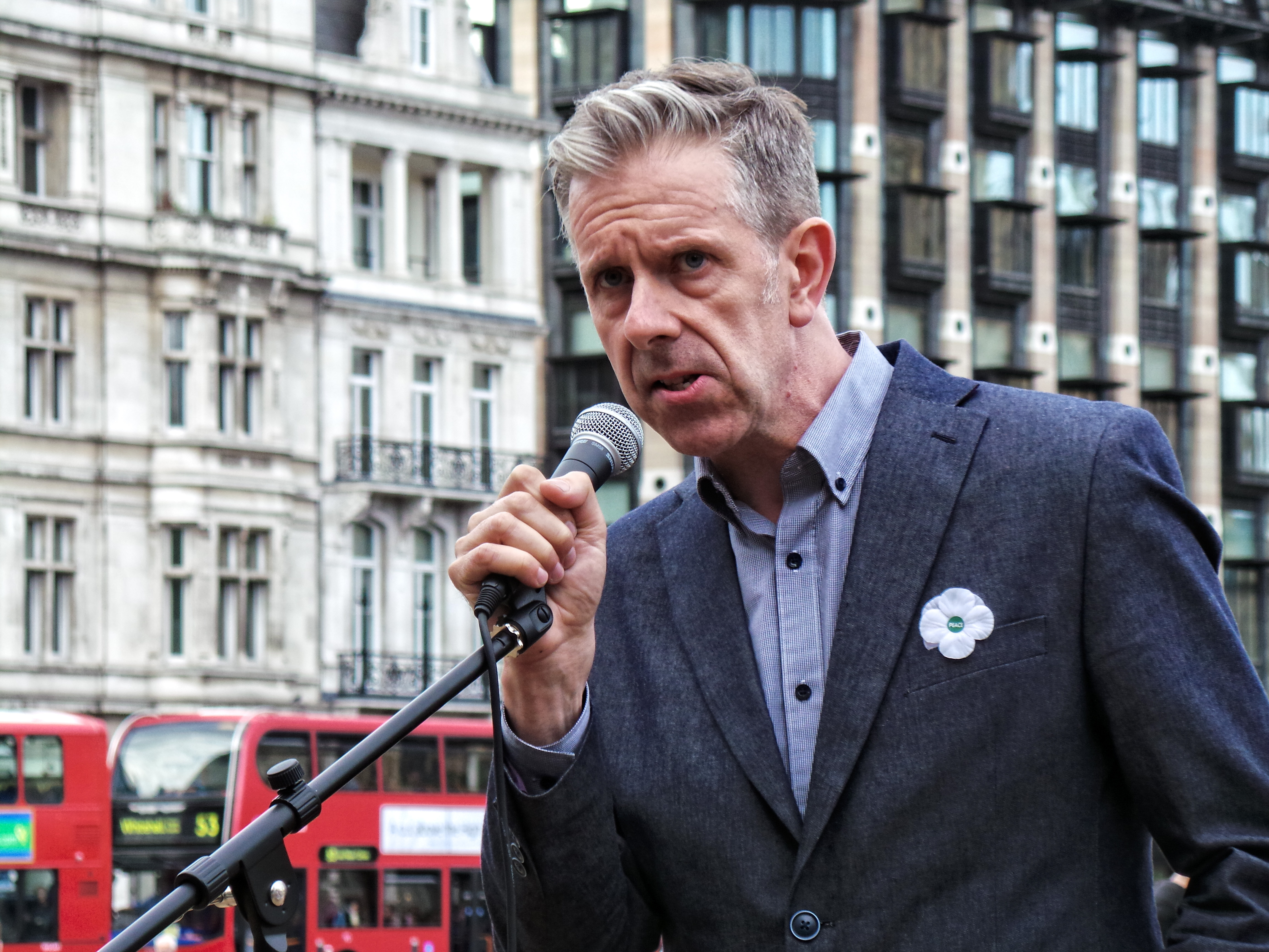 At the No More War event at Parliament Square in August 2014.